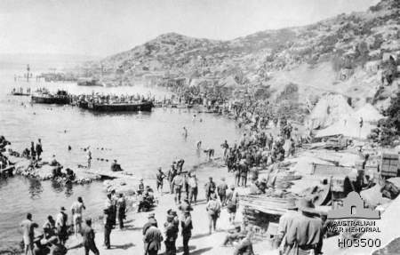 AWM caption : ANZAC BEACH, GALLIPOLI. 1915. PHOTOGRAPH SHOWING TROOPS AND STORES ON THE BEACH WITH BOATS IN THE BACKGROUND AND SOME MEN BATHING.